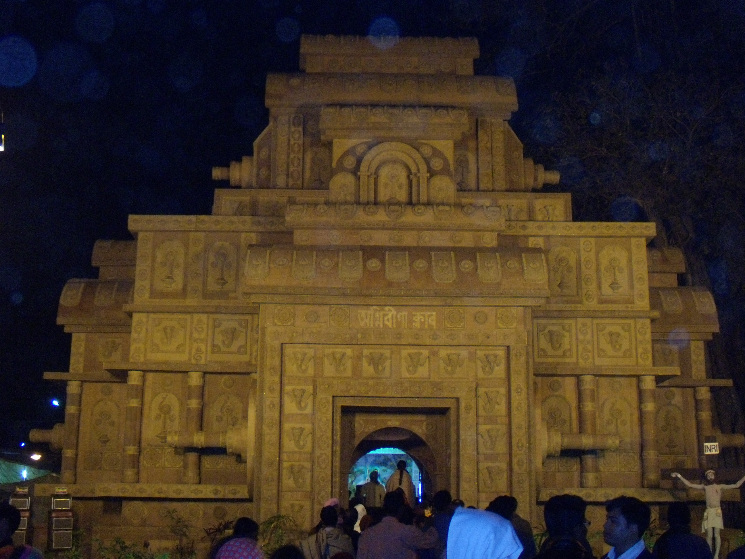 Saraswati Puja